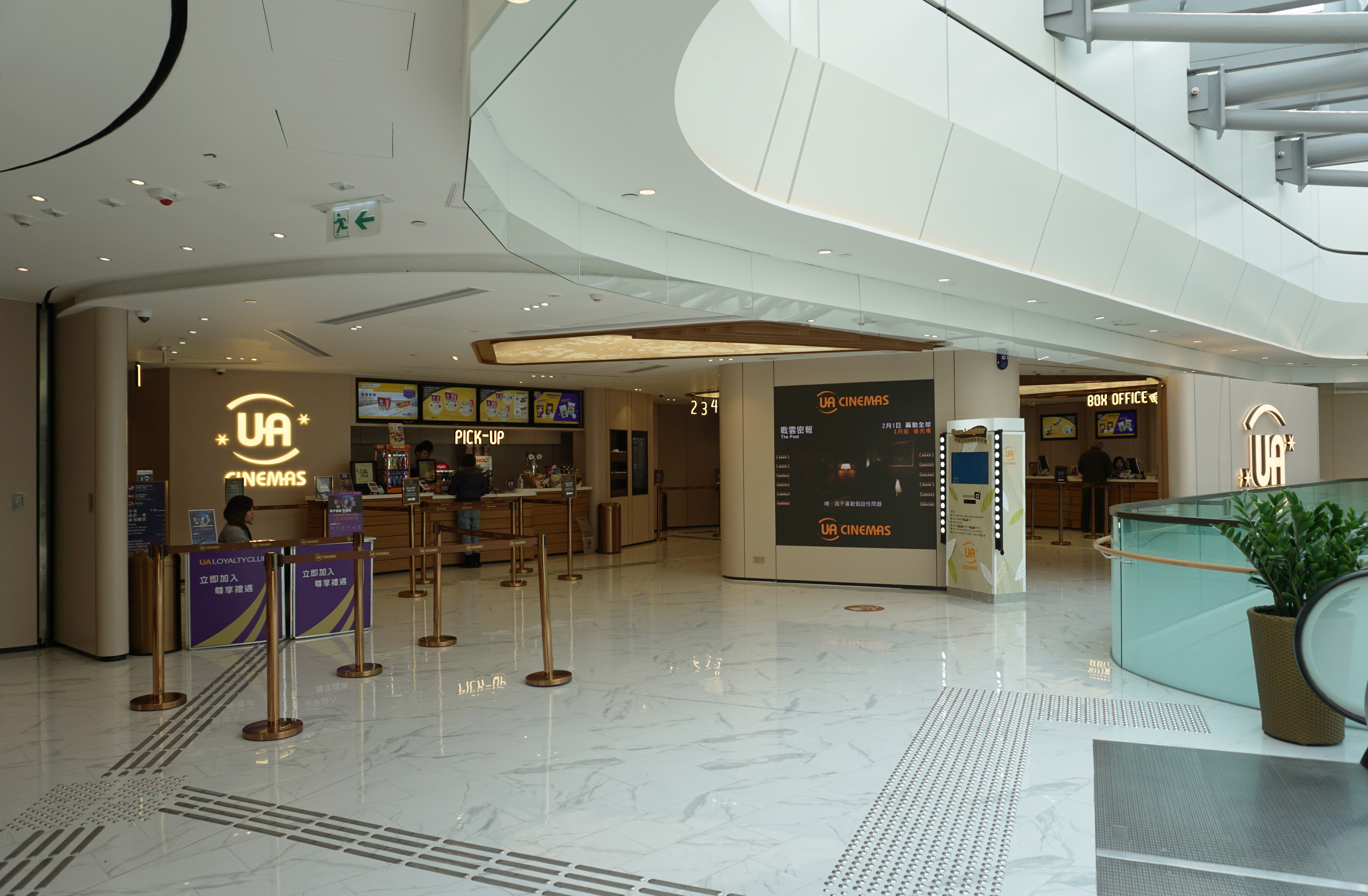 Maritime Square 2 in Tsing Yi, Hong Kong.